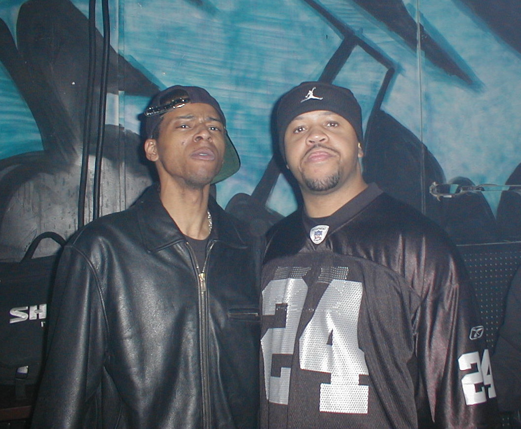 DJ Funk and DJ Assault at a rave in Springfield Massachusetts in 2003.